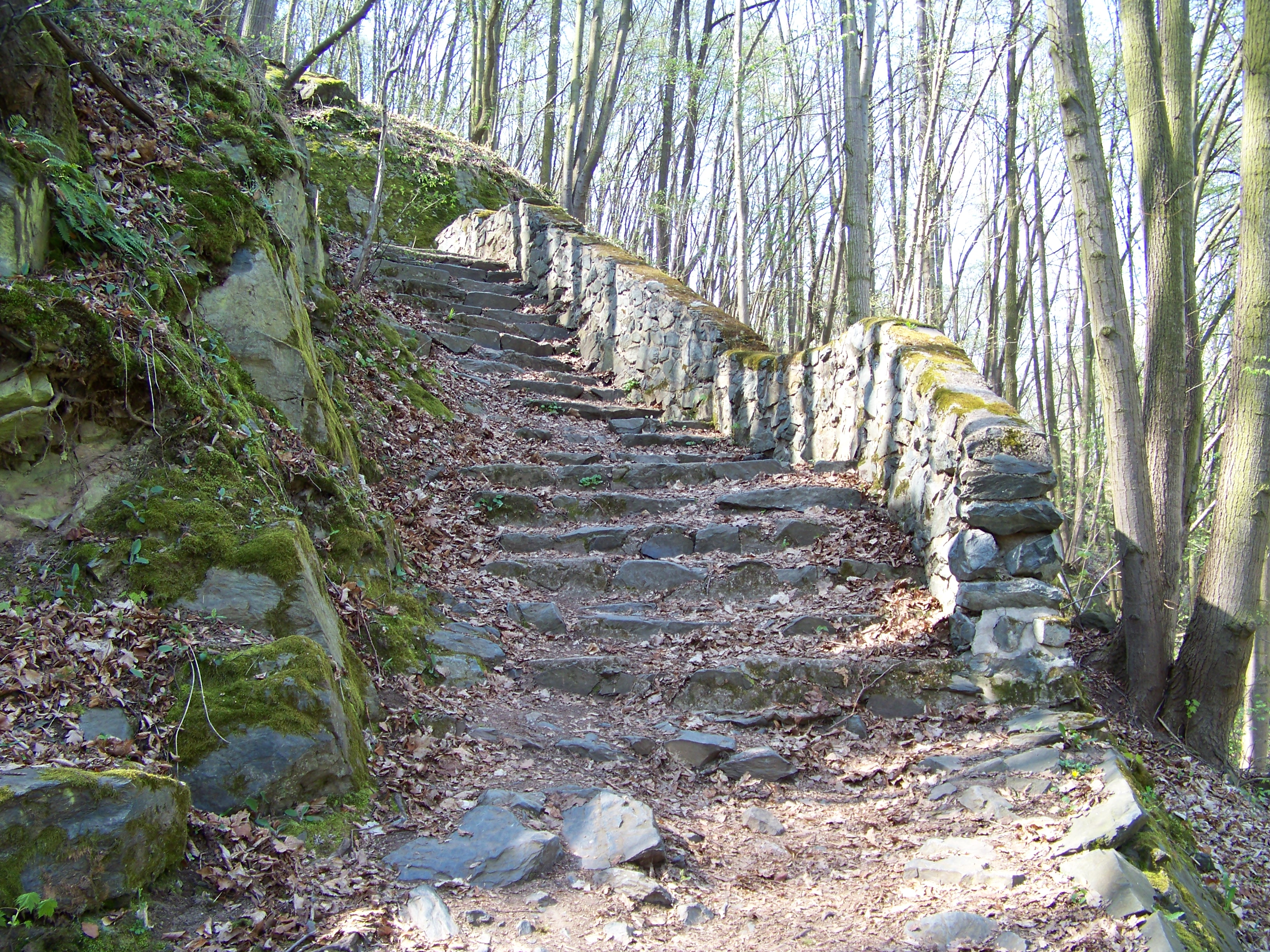 Hradištko, Central Bohemian Region, the Czech Republic. Trail along Sázava River.